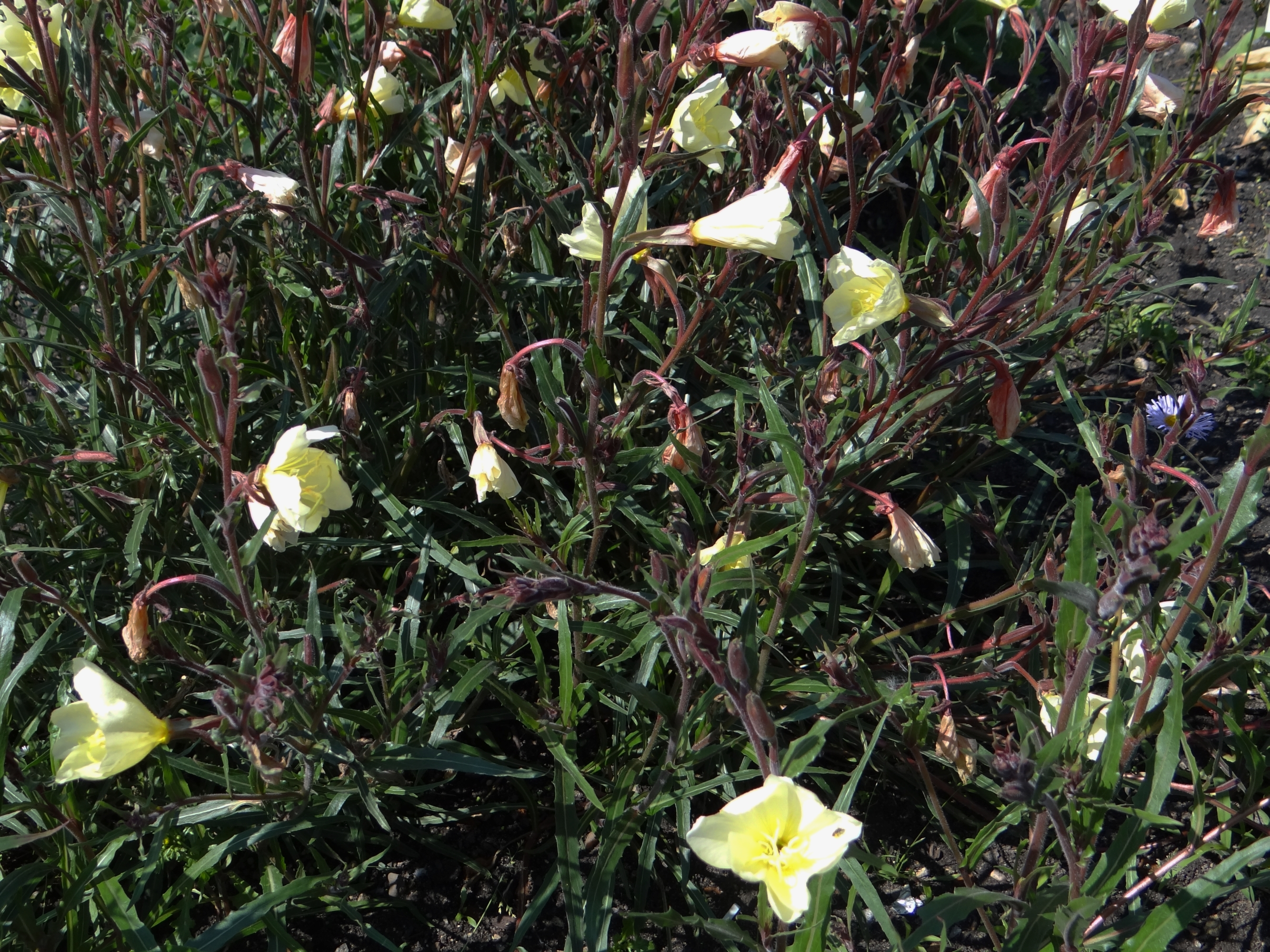 Oenothera odorata (location:Botanical Garden in Cracow)